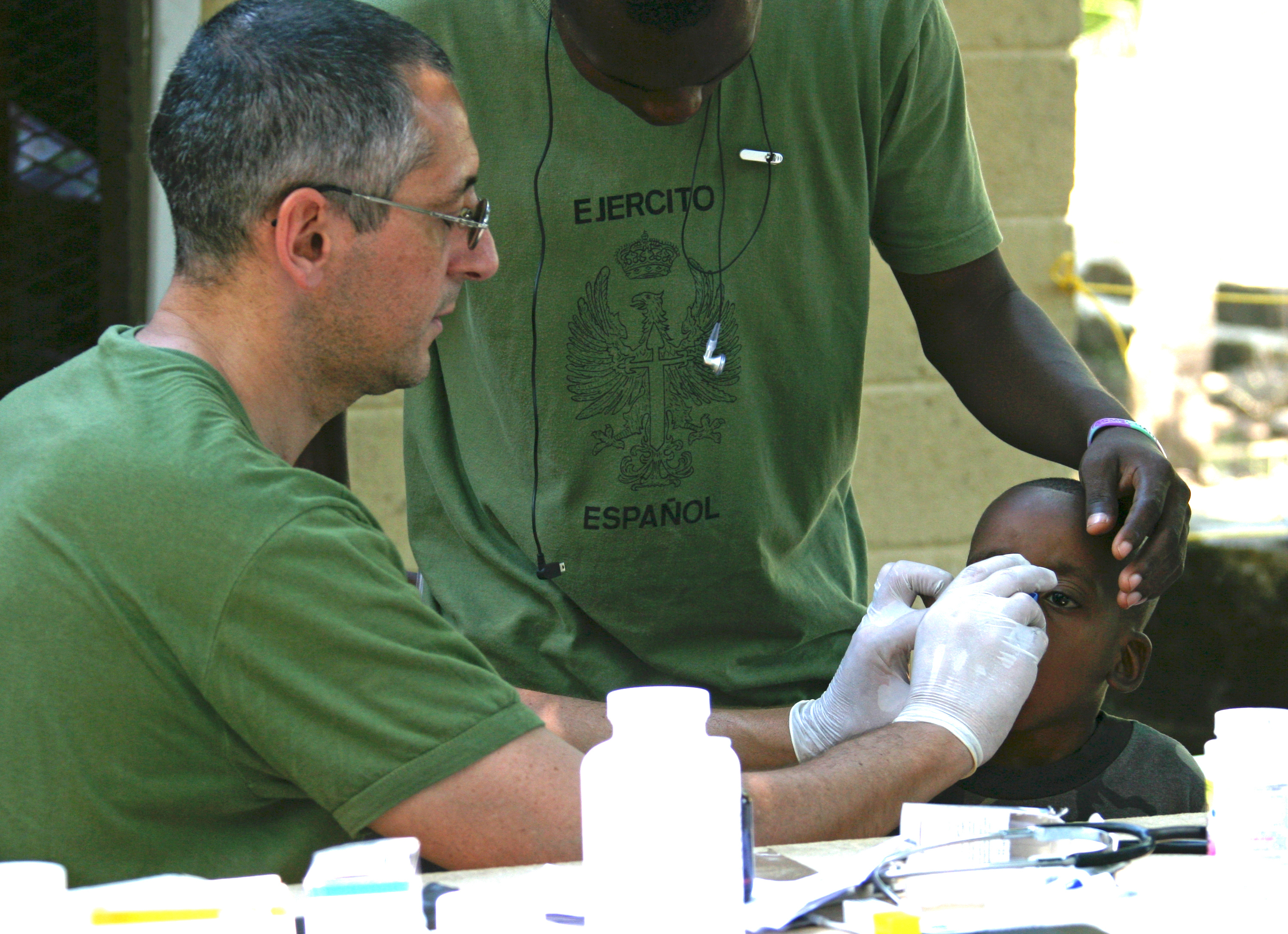 A medical doctor with the Spanish Marines renders medical aid to a Haitian Boy at the Wesleyan Center Clinic in Petit Goave, Haiti, Feb. 23, 2010. In response to a devastating earthquake that struck the country of Haiti, Marines and Sailors from the 22nd Marine Expeditionary Unit deployed in support of Operation Unified Response, Jan. 18, 2010.